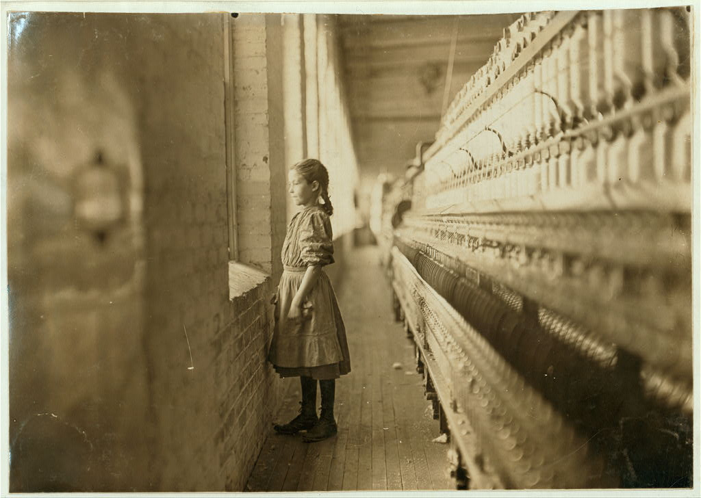 Rhodes Mfg. Co., Lincolnton, N.C. Spinner. A moments glimpse of the outer world Said she was 10 years old. Been working over a year. Location: Lincolnton, North Carolina.